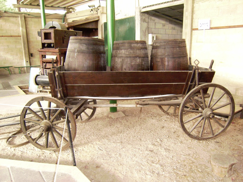 Wooden barrels for transferring water from the well to the settlements arranged on a wooden cart